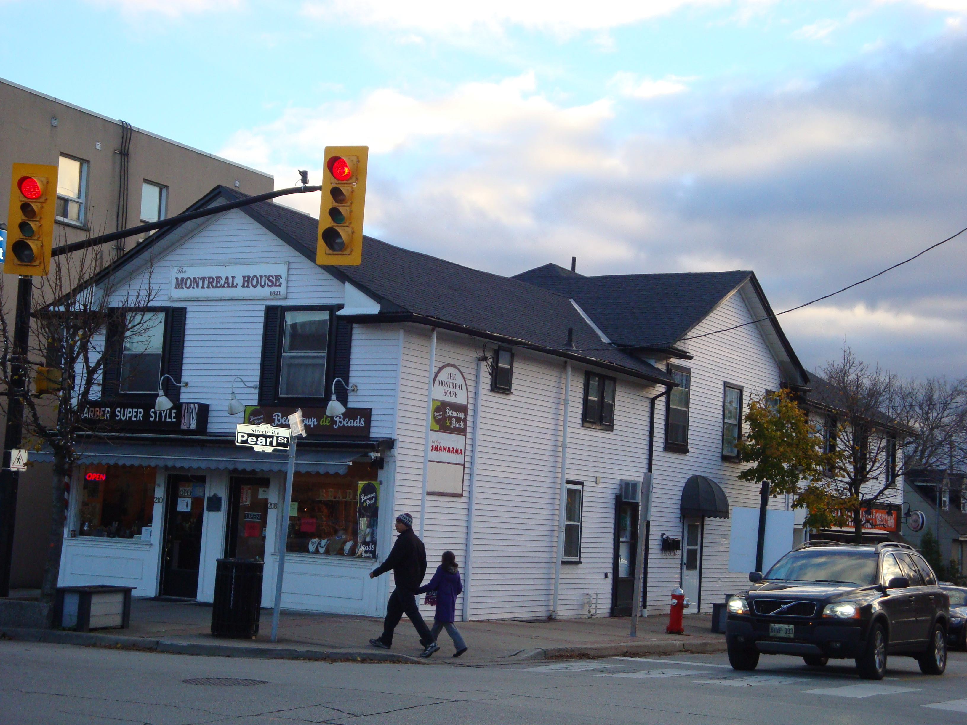 Montreal House, 210, Queen Street South, Streetsville, Mississauga, Ontario, Canada. The Montreal House was the first store in Streetsville. Its founder was John Barnhart.